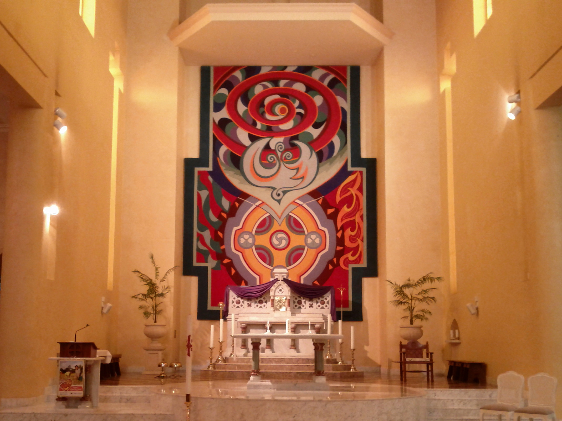 St Patrick's Basilica, Fremantle, altar and tapestry